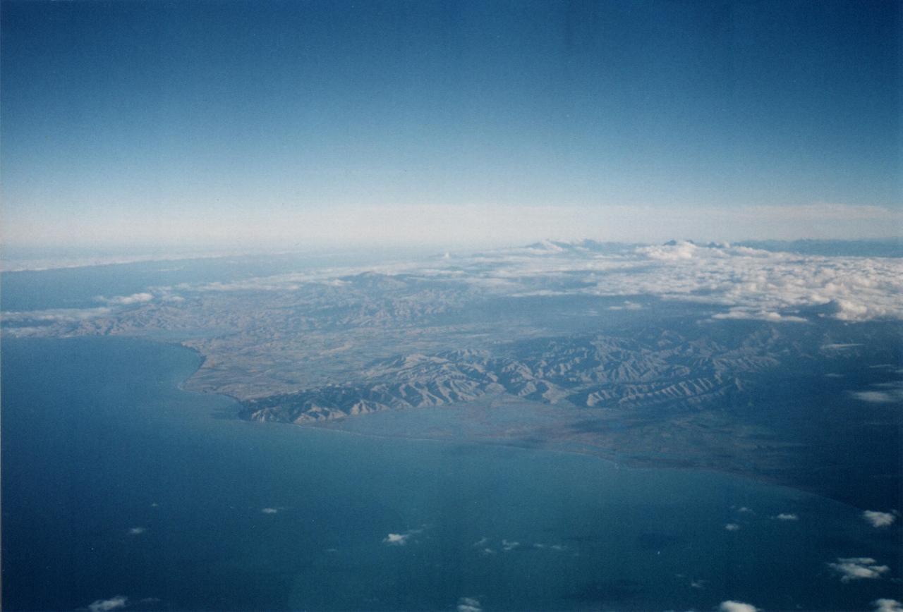 View of Cape Campbell South Island New Zealand Or not. From foreground to rear, Cloudy Bay and the mouth of the Wairau River; White Bluffs (800-foot limestone bluffs, the range of hills running right to the sea); Awatere Valley and Clifford Bay; Lake Grassmere; Coast leading to Cape Campbell. The cape itself appears to be just off the left of the picture.